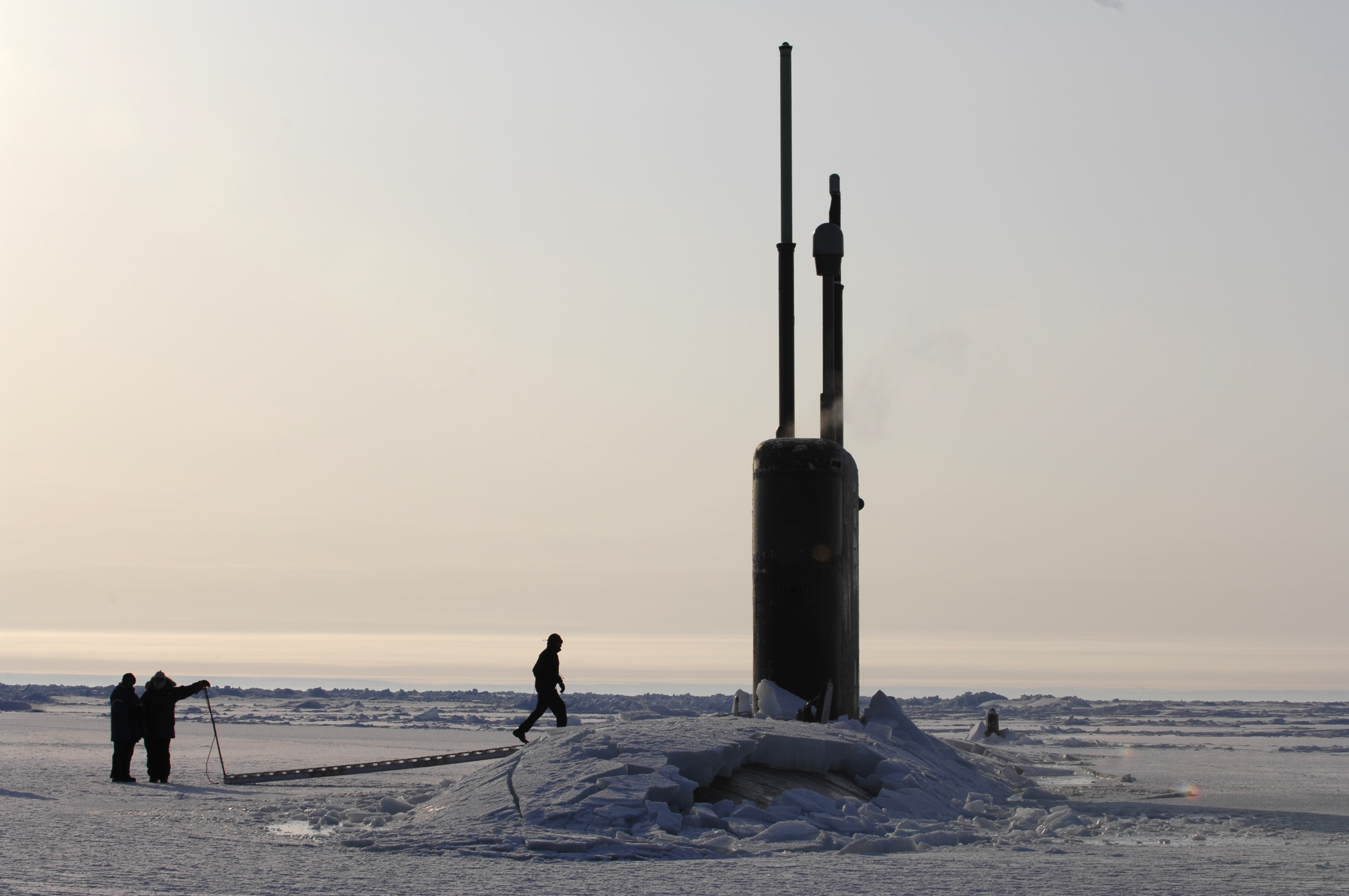 Los Angeles-class fast attack submarine USS Alexandria (SSN 757) is submerged after surfacing through two feet of ice during ICEX-07, a U.S. Navy and Royal Navy exercise conducted on and under a drifting ice floe about 180 nautical miles off the north coast of Alaska.